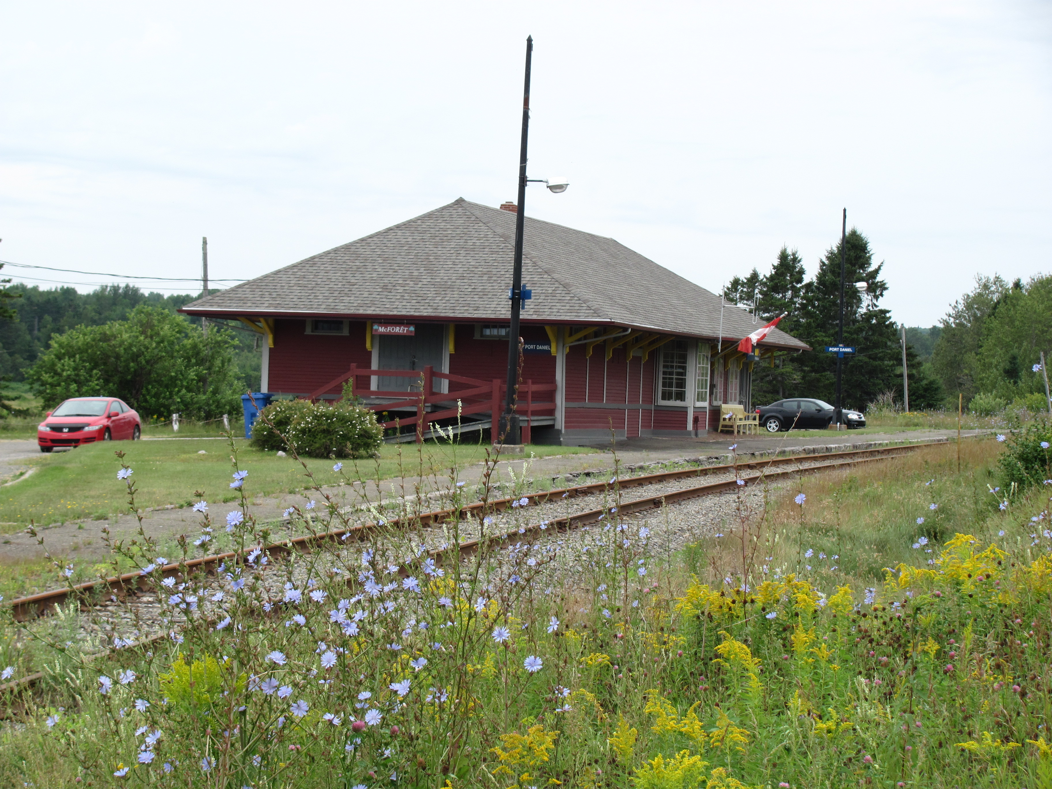 Train station of Port Daniel, Gaspésie, Québec, Canada